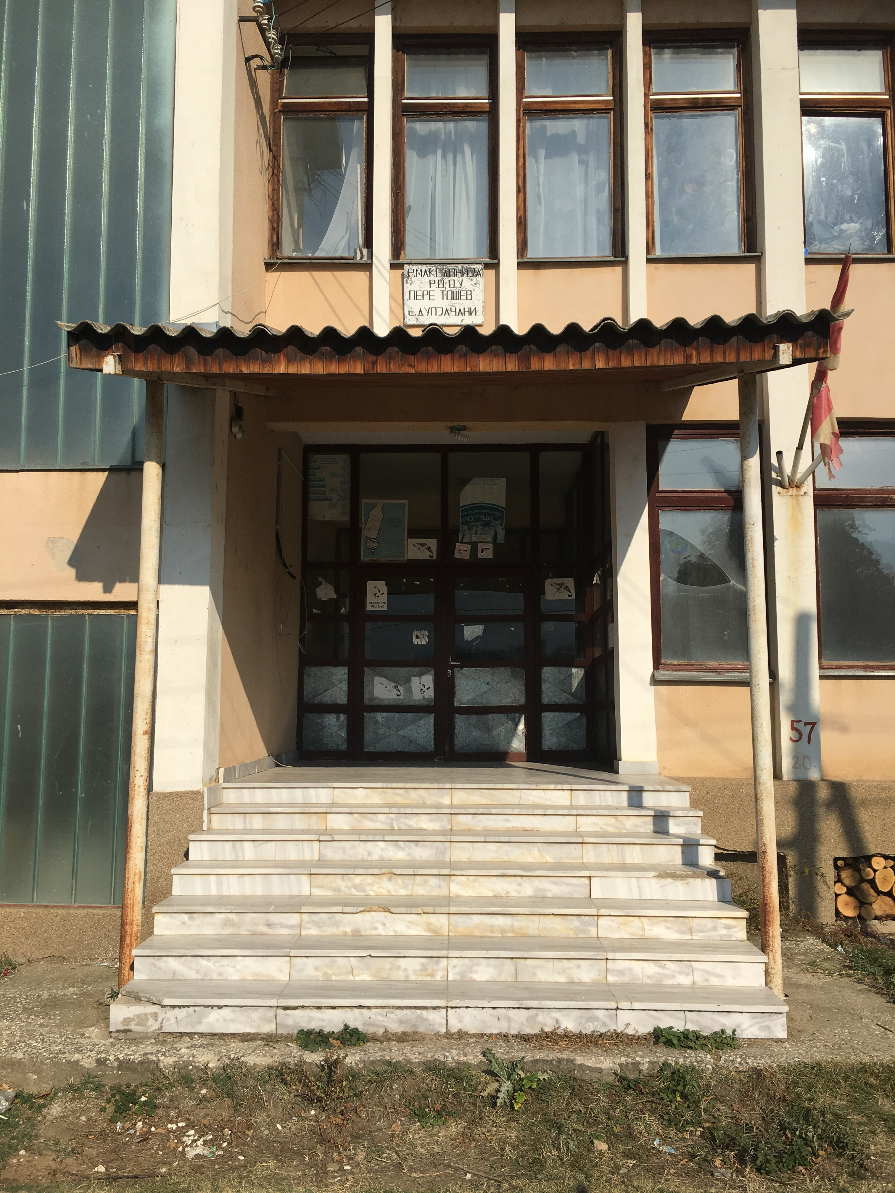 The entrance of Pere Tošev Primary School in the village of Dupjačani